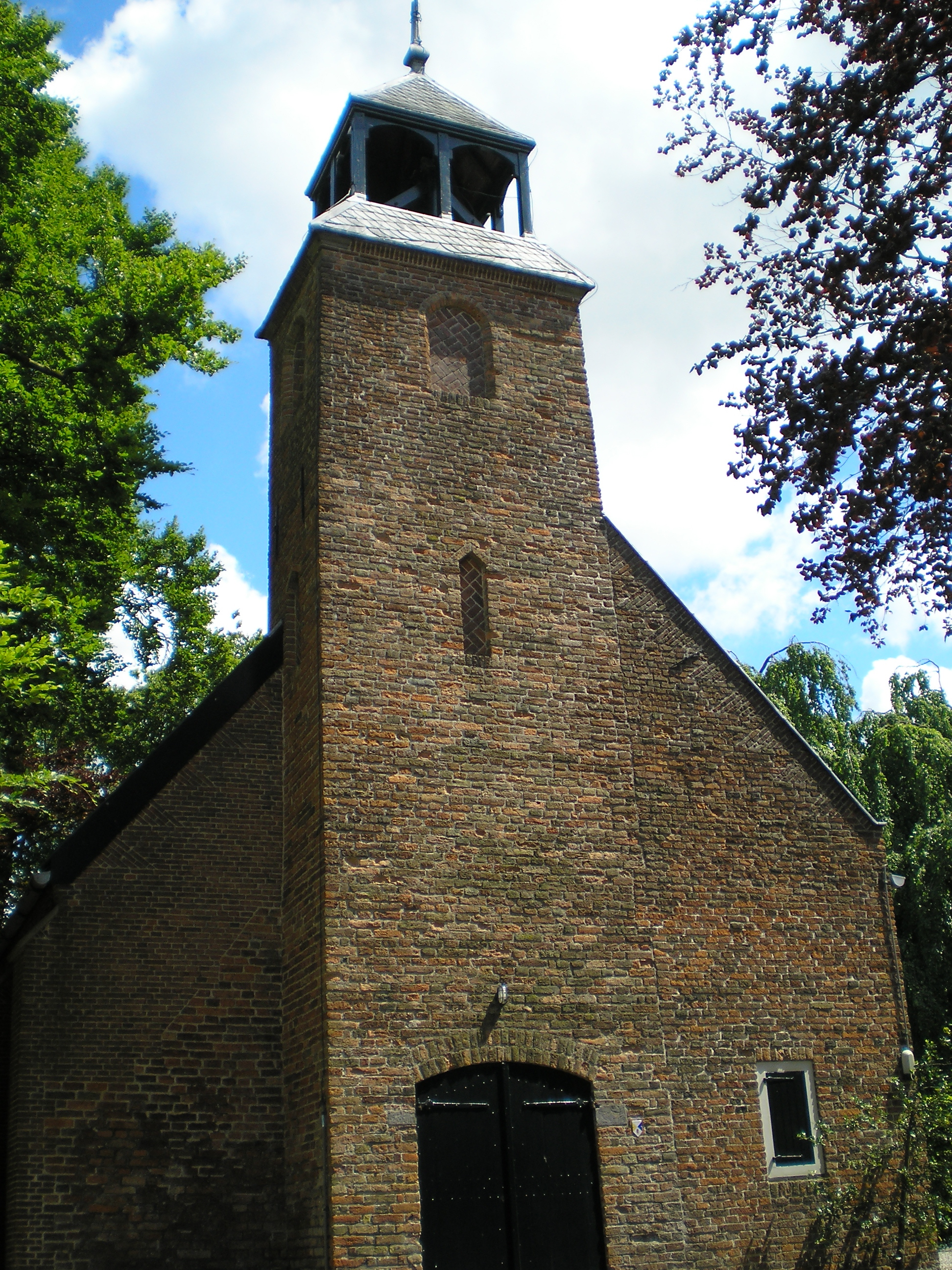 Dutch Reformed Church in the Waalseweg 71 in Tull en't Waal in the Netherlands